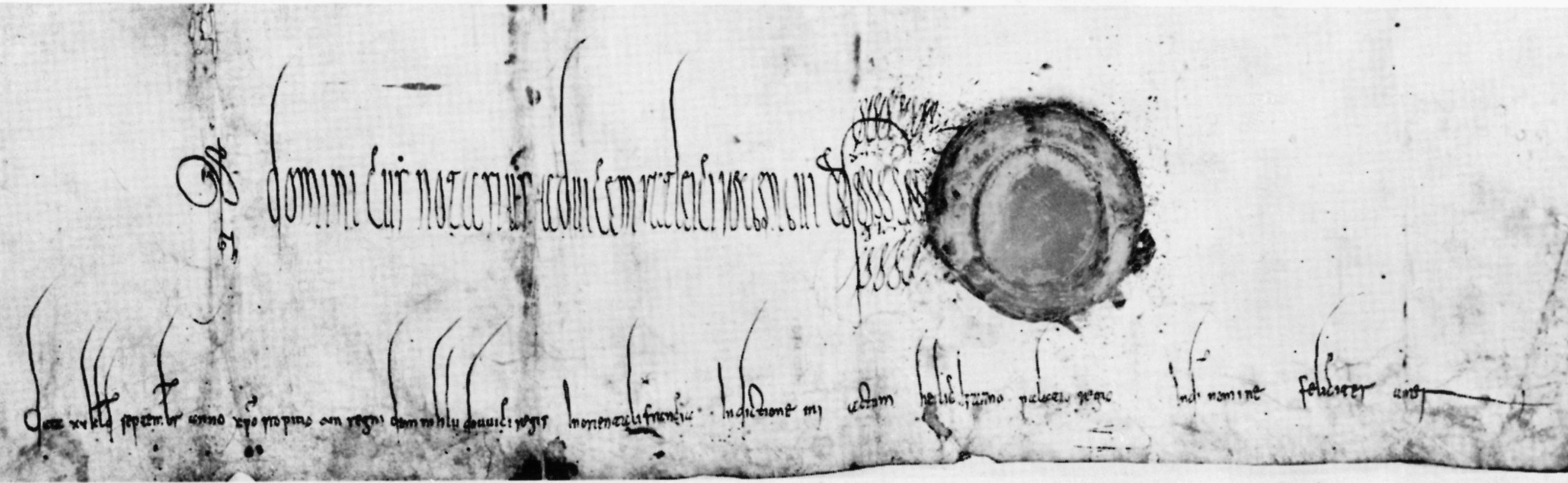 Deed of king Louis the German from 841, given in Heilbronn